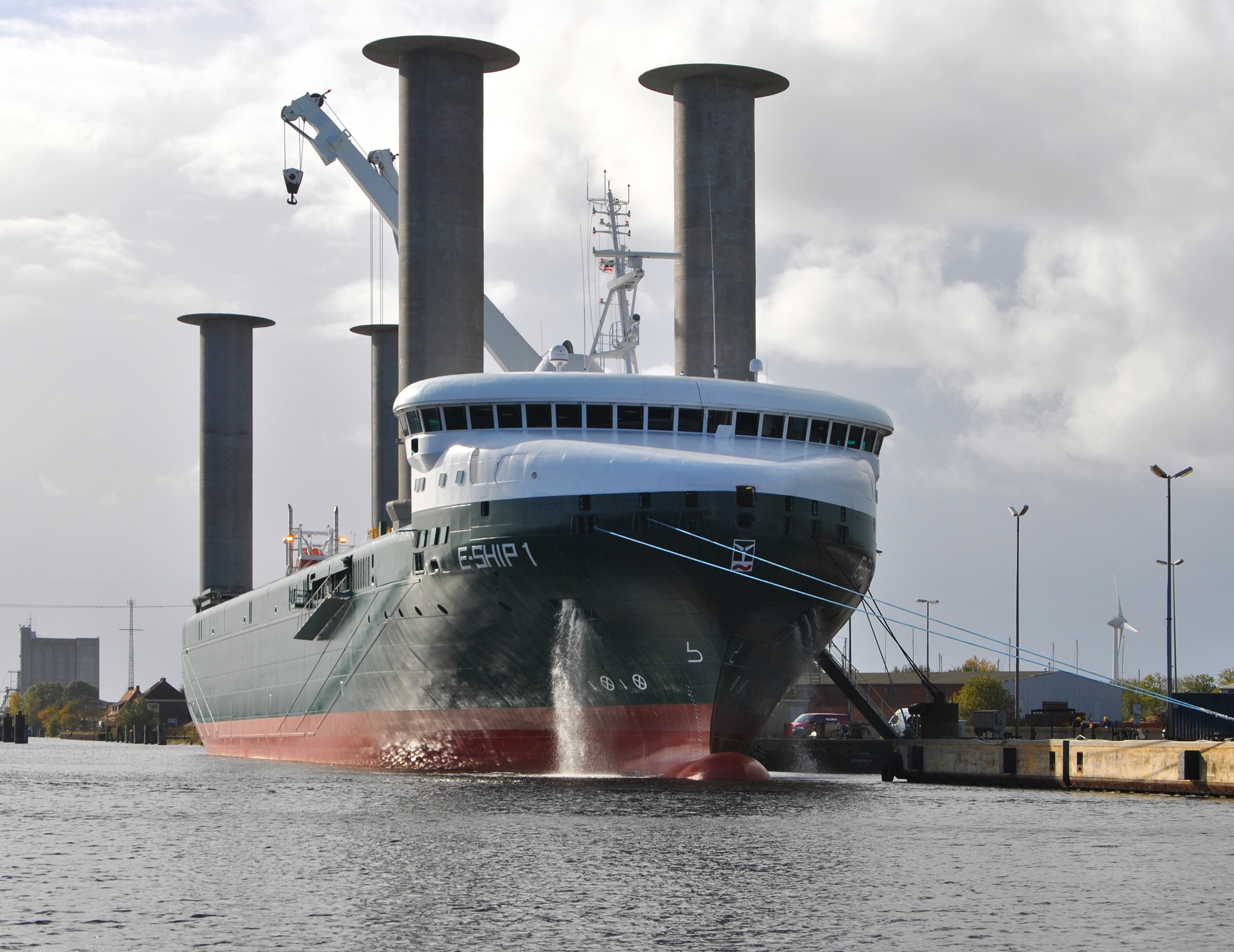 The German RoLo cargo ship E-Ship 1 in the harbour of Emden call sign: DGFN2 IMO: 9417141 MMSI: 218108000